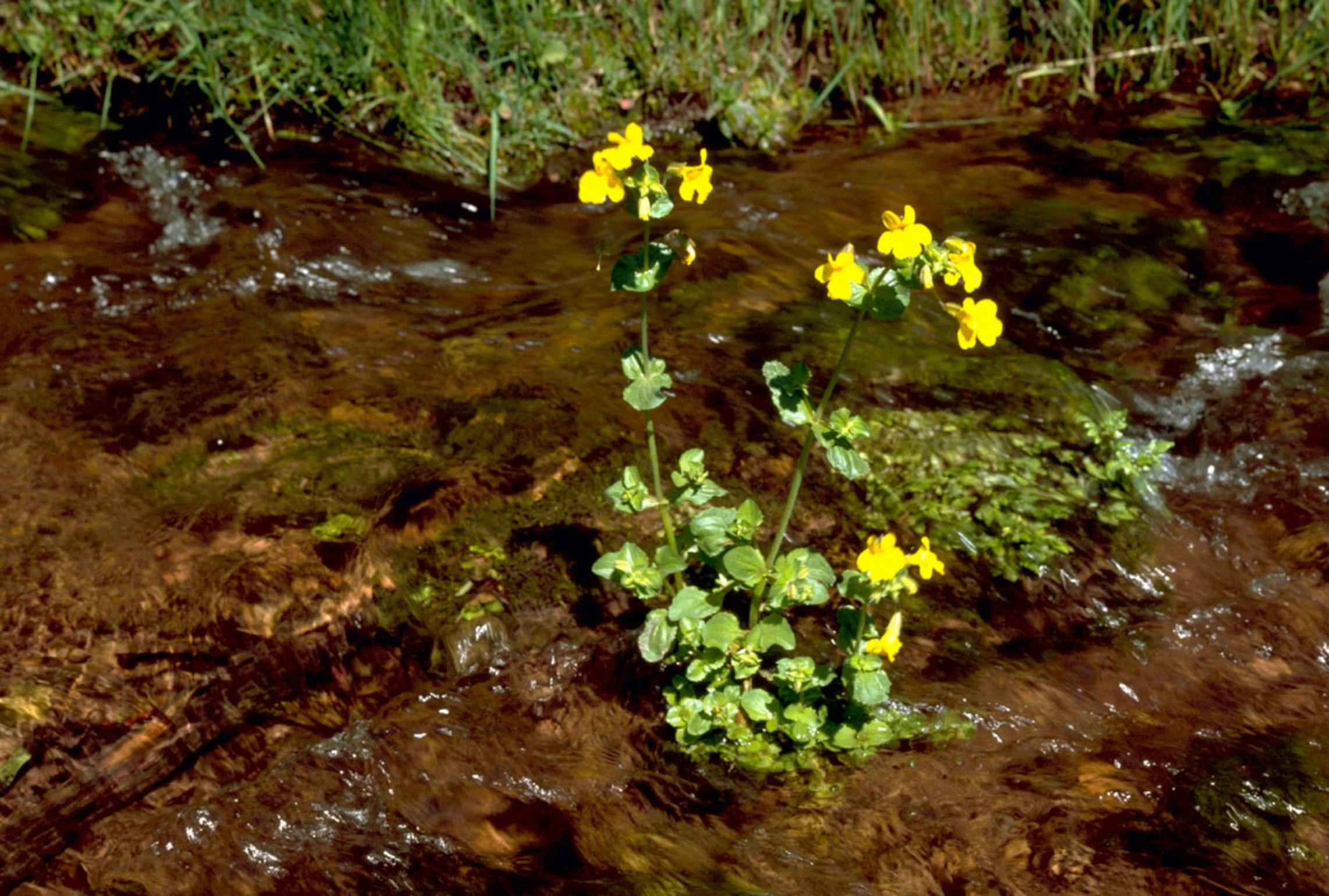 Image title: Mimulus guttatus monkey flower yellow monkey flower Image from Public domain images website